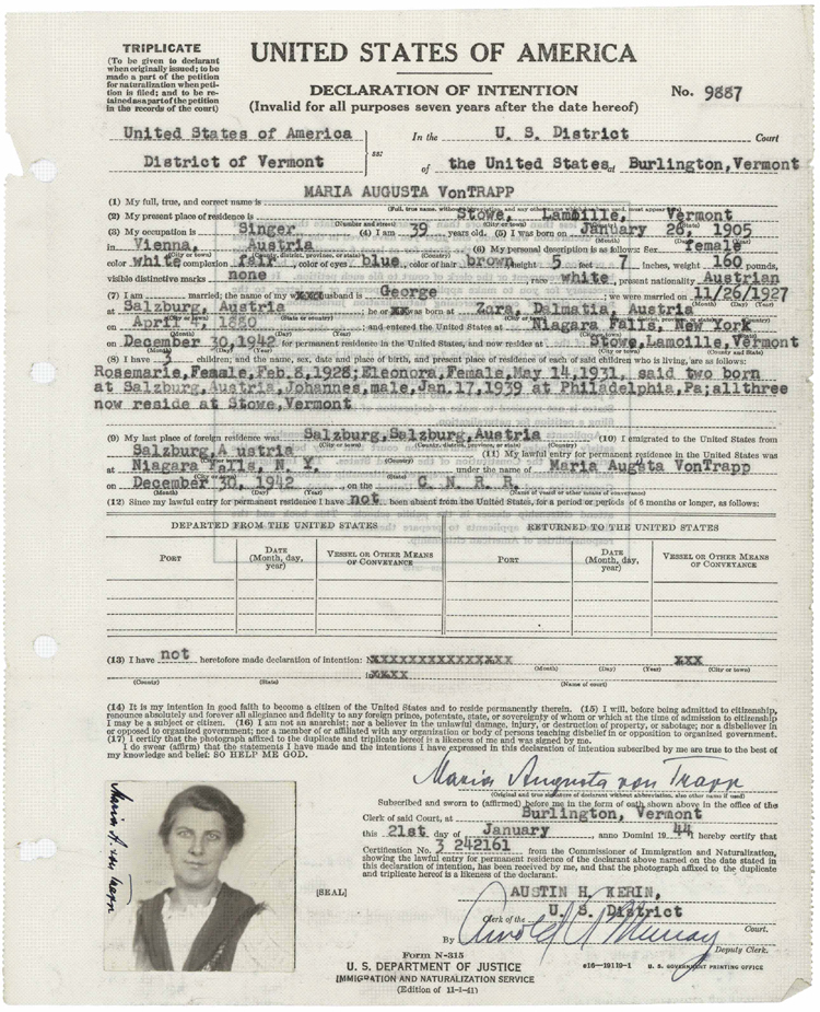 Petition for Naturalization of Maria von Trapp (known as Maria in "the Sound of Music") 5/26/1948